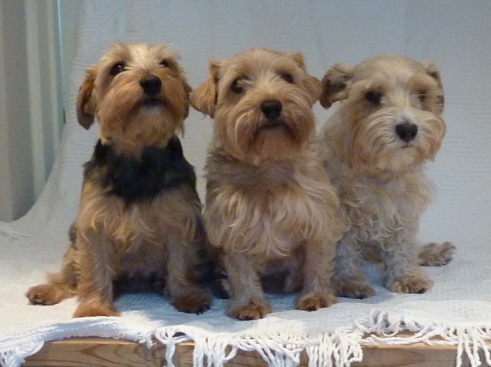 3 common coat patterns present in Lucas Terriers